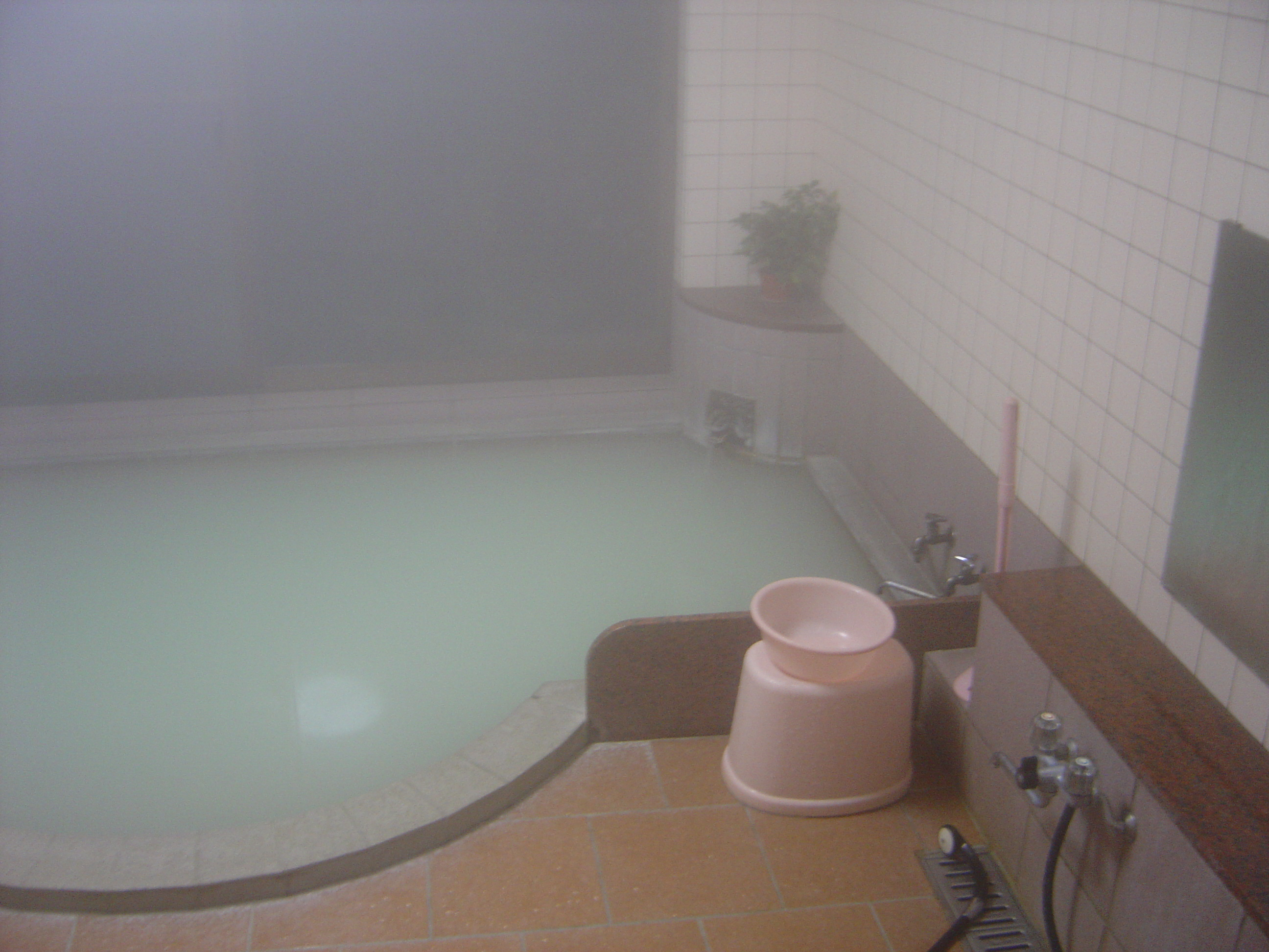 Bath in the Fuji-Hakone Guest House in Hakone, Japan